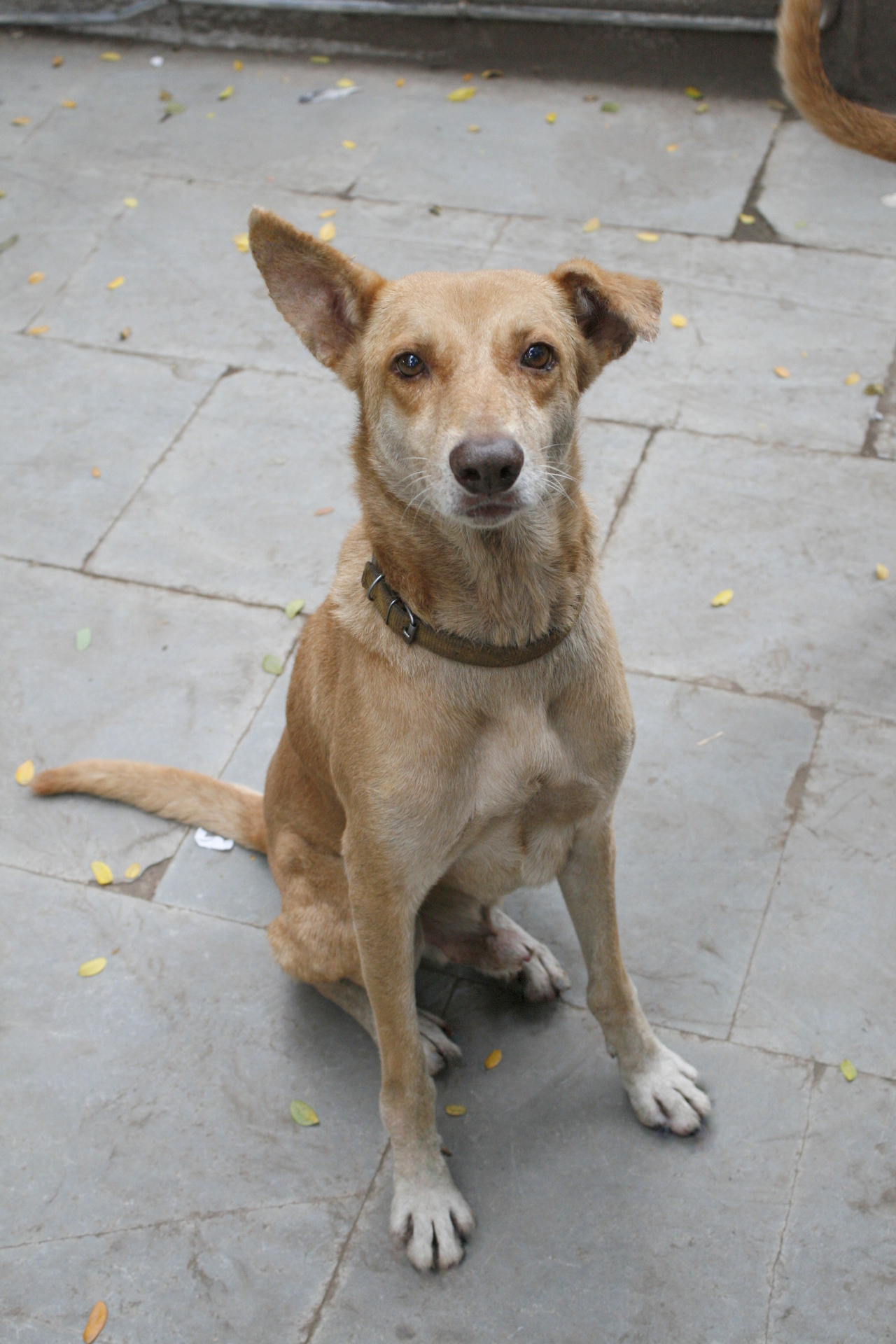 Domesticated Indog.